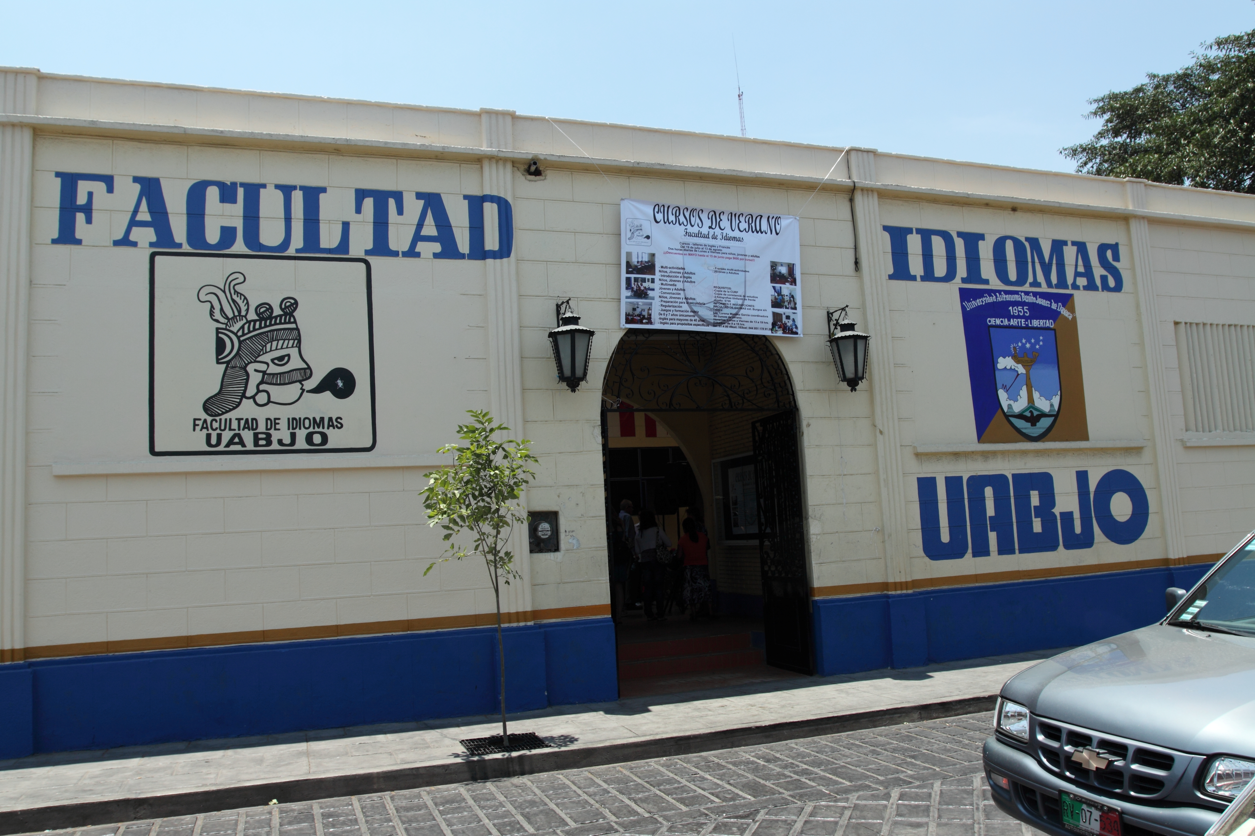 The UABJO School of Languages in Oaxaca, Mexico. This photo may incorporate a commercial logo or signage, but is free under Mexican Laws governing freedom of panorama - See COM:CRT/Mexico#Freedom of panorama.